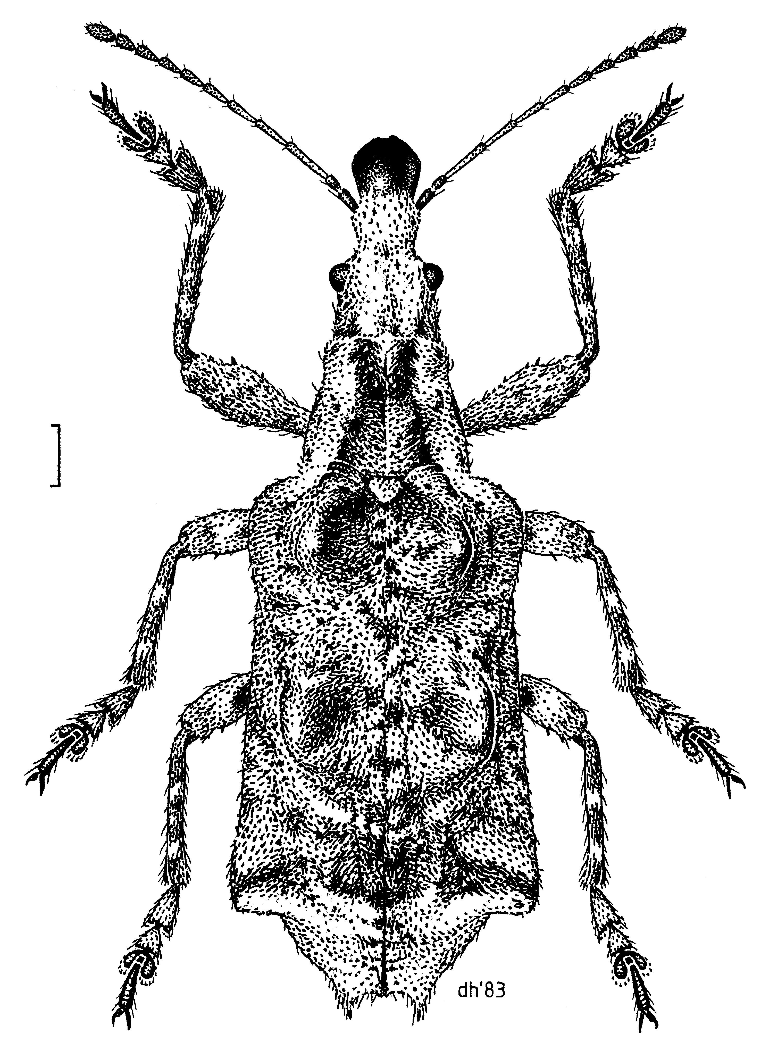 (Coleoptera: Belidae) Agathinus tridens illustrated by Des Helmore.